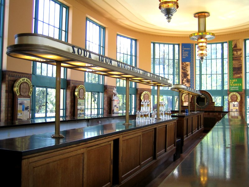 A side view of the water bar at the Hall of Waters, Excelsior Springs, Missouri, USA (1936 - 1938)